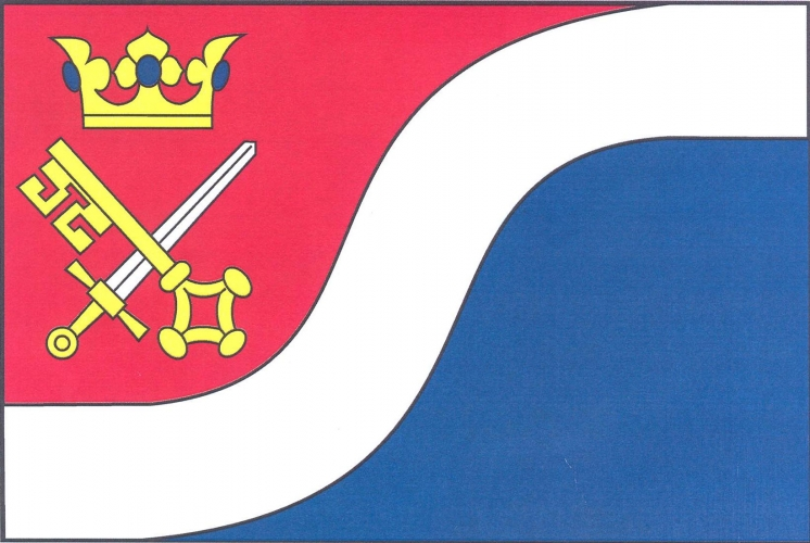 Flag of Slapy, Prague-West District